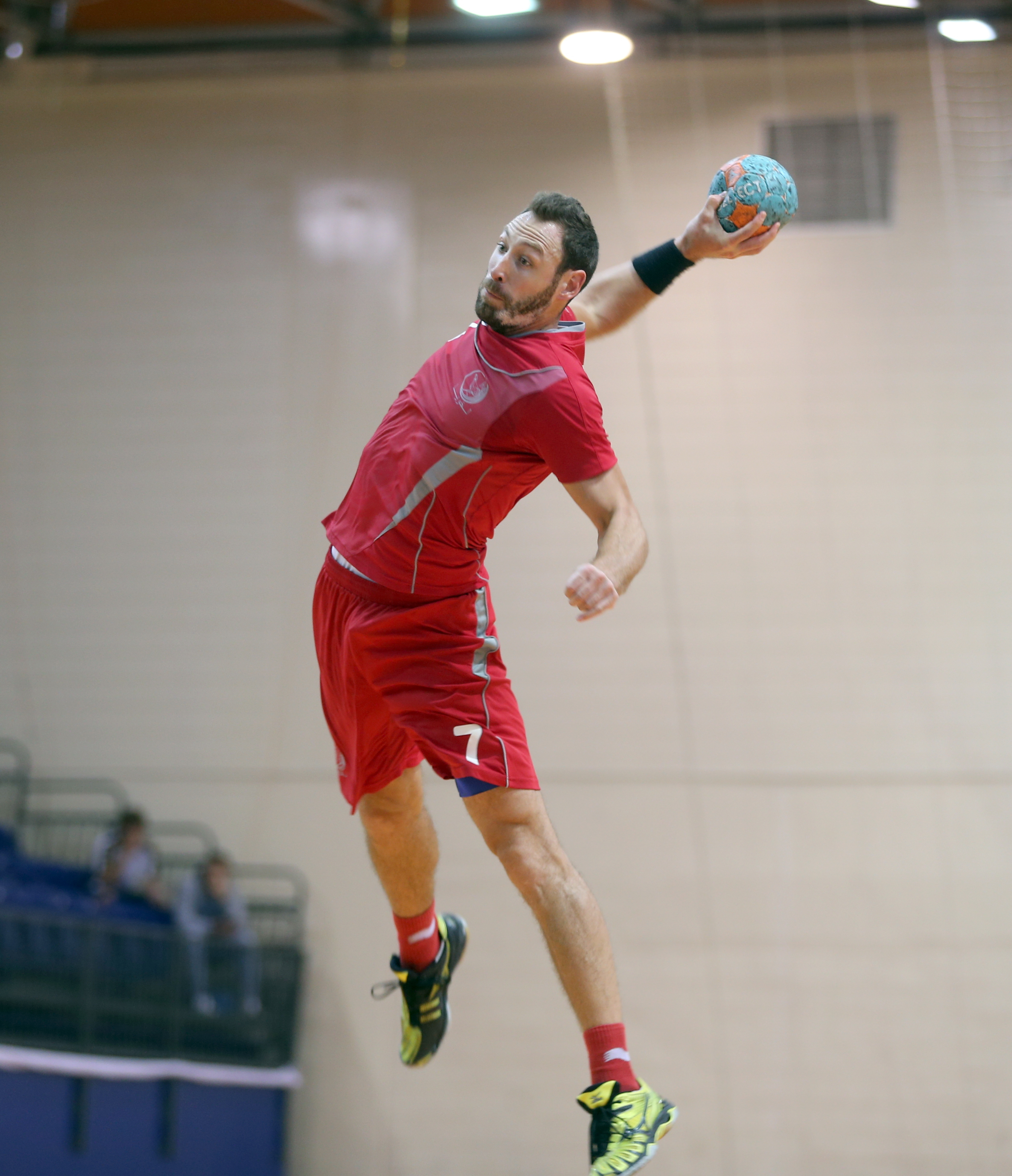 Lekhwiya's French professional Bertrand Roine in action during a Qatar League match. Picture by Mohan